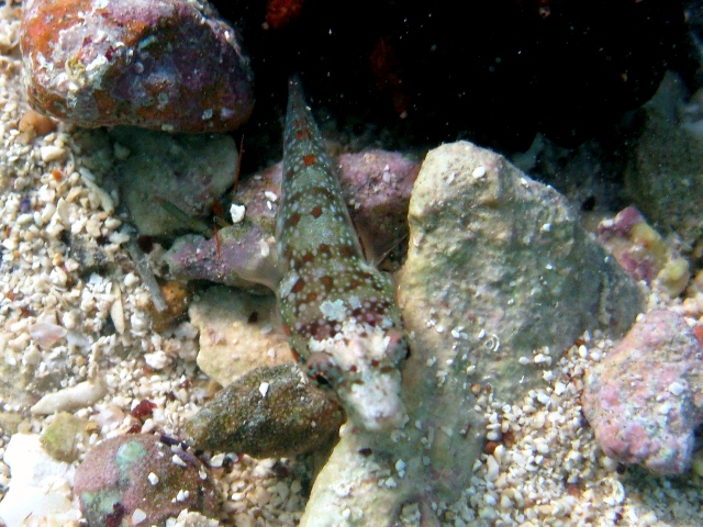 Lepadogaster candolii photographed in Cres (Croatia)